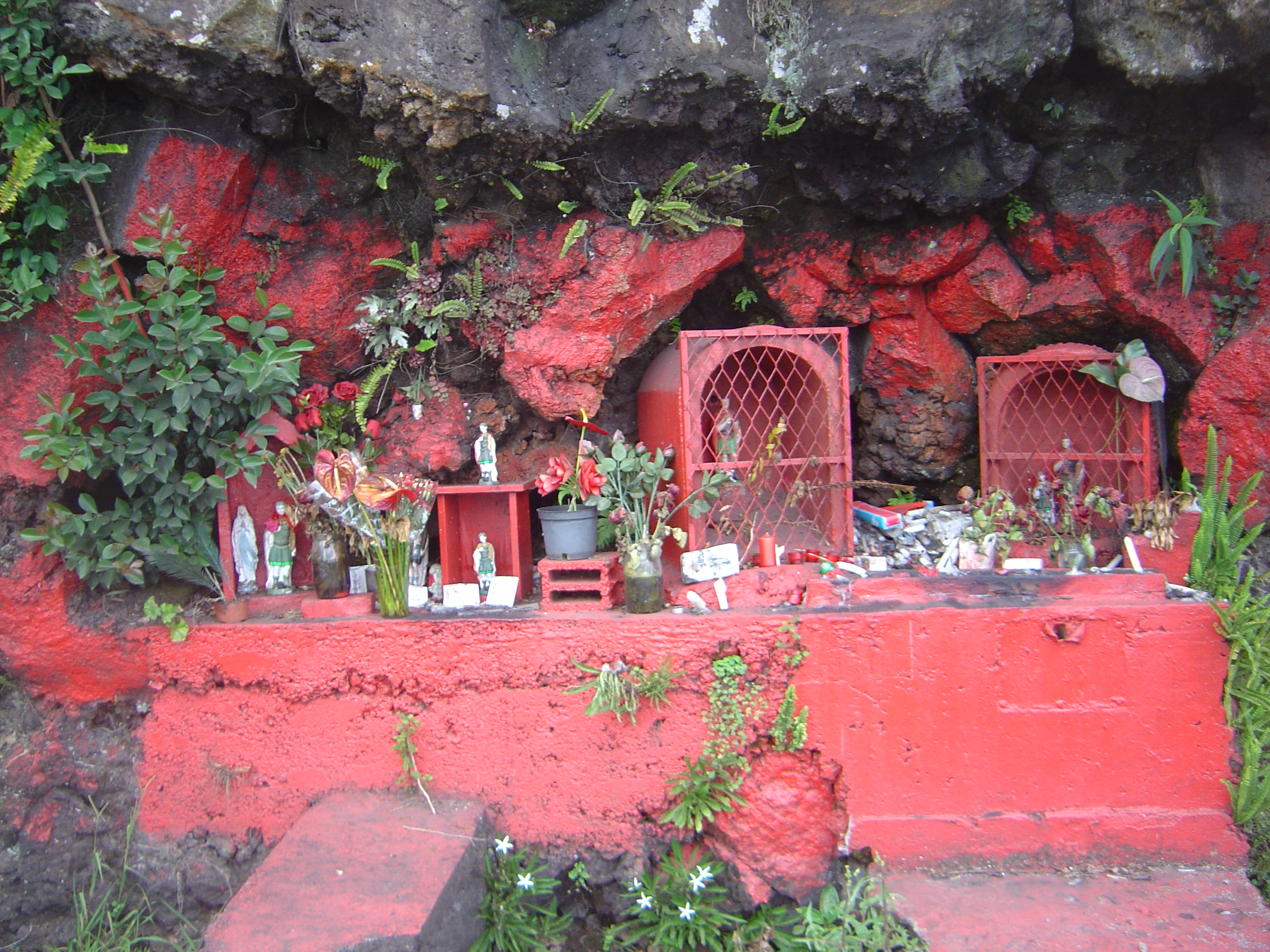 An altar to Saint Expédit (a local following) on the route des plaines on Réunion Island.